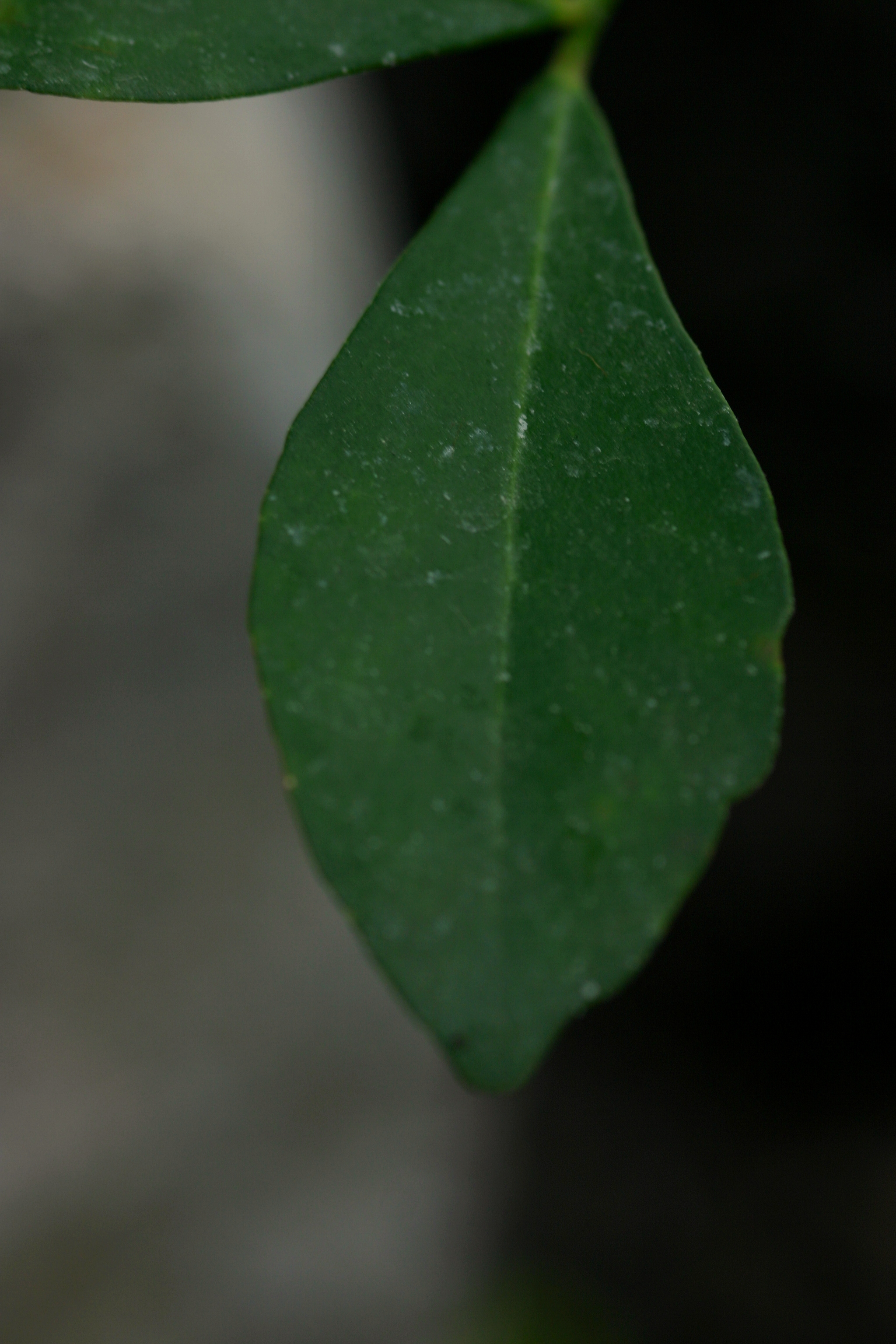 Orange Jessamine (Murraya paniculata ) is a small, tropical, evergreen tree or shrub growing up to 7 m tall. The plant flowers throughout the year. Its leaves are glabrous and glossy, occurring in 3-7 oddly pinnateleaflets which are elliptic to cuneate-obovate to rhombic. This media file is produced by Wikipedian in Residence in Botanical Garden Jevremovac in 2015.